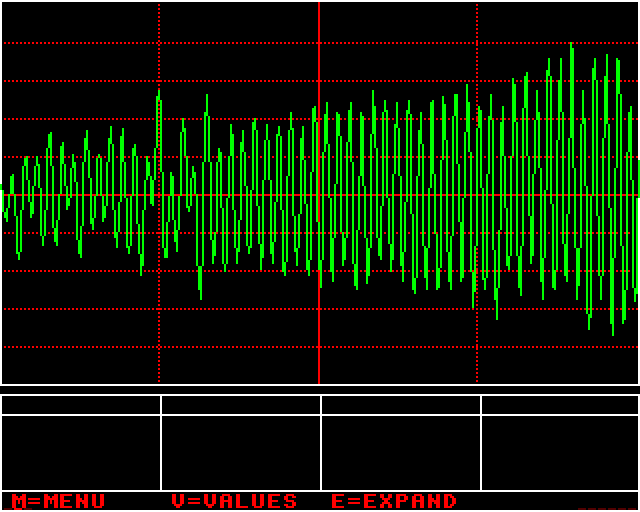 A screenshot of the software VELAnalysis 1.3 displaying the audio wave form of a whistle